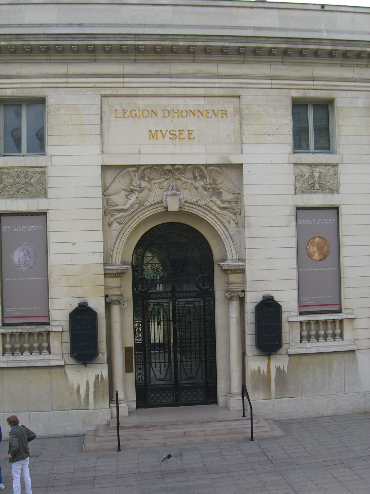 The main entrance to the Museum of the French Legion of Honnor